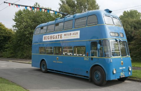 Walsall Corporation trolleybus 862 at the Black Country Living Museum, Dudley, UK.